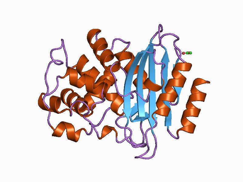 Cartoon representation of the molecular structure of protein registered with 1bsg code.